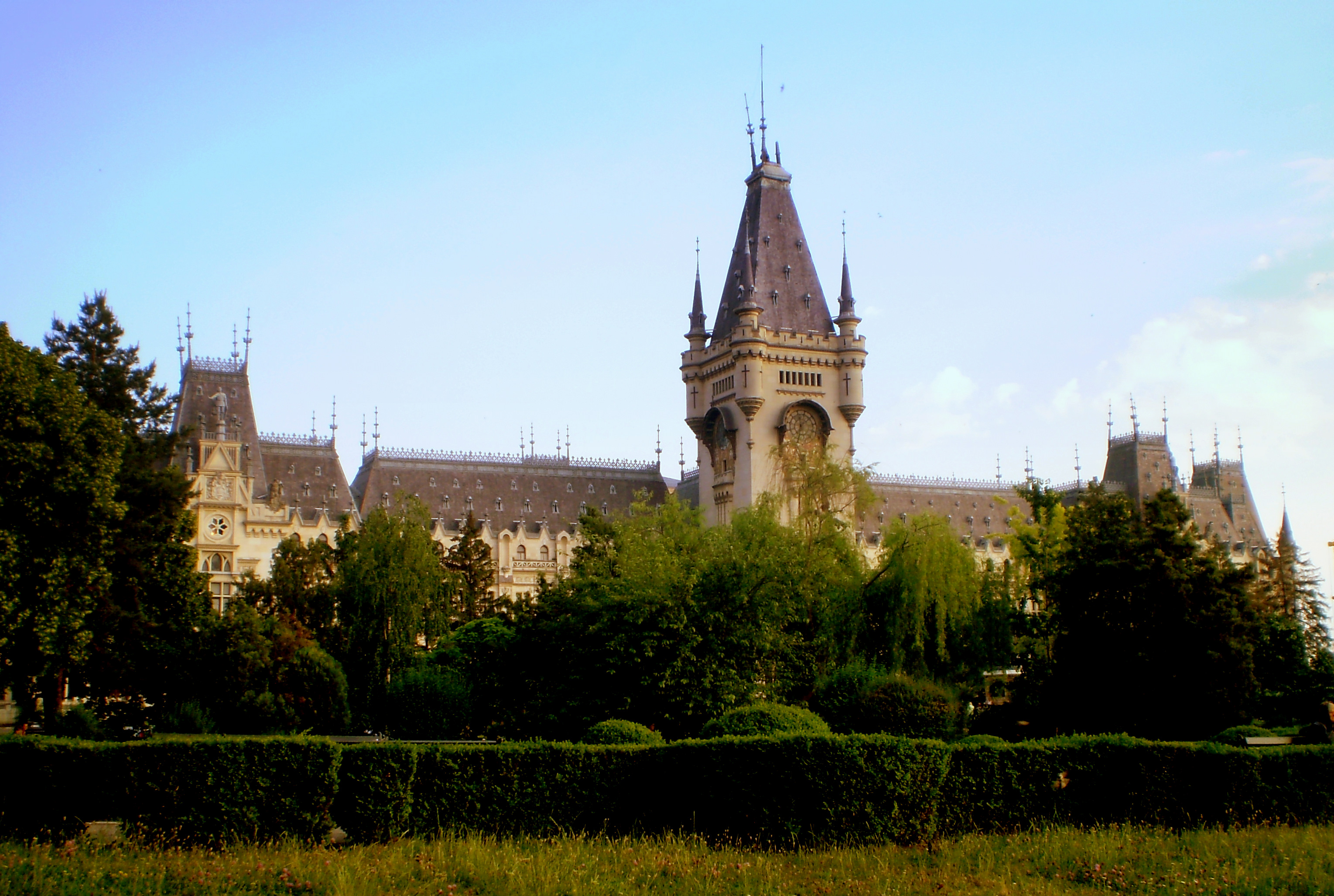 Iasi , Palace of Culture , Iaşi , RomaniaRomână: Iaşi , Palatul Culturii , Iaşi , România 01